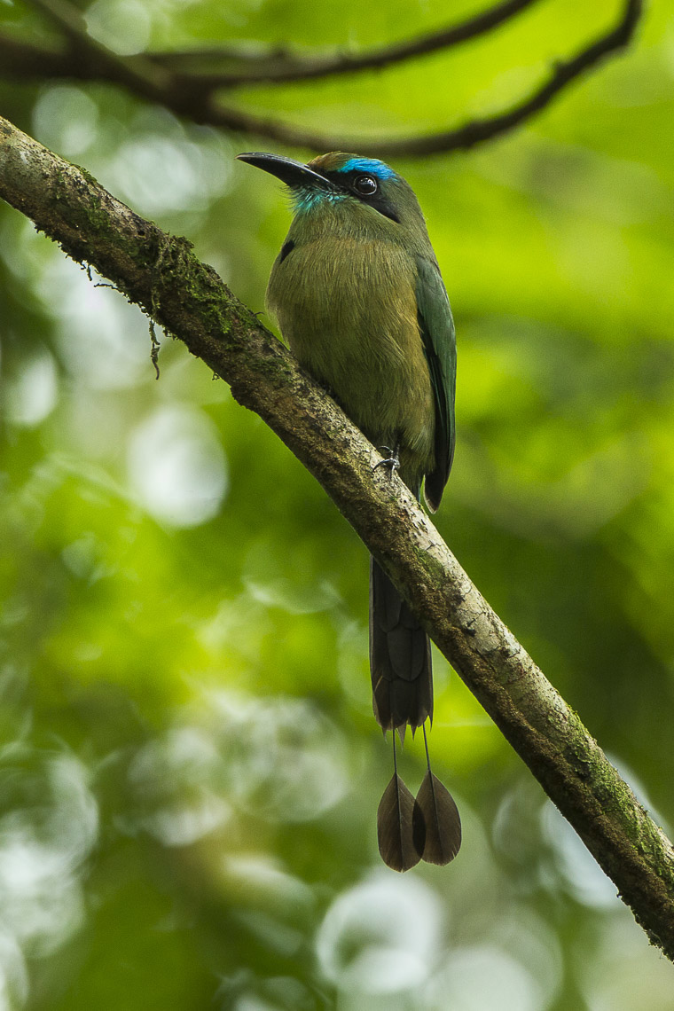 Very rare motmot in Costa Rica